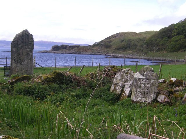 Standing stone by the graveyard, Camas Nan Geall A bronze age standing stone beside a later graveyard. 50 yards away is a Neolithic burial chamber.